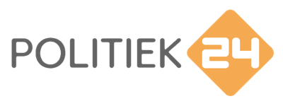 Logo of Politiek 24